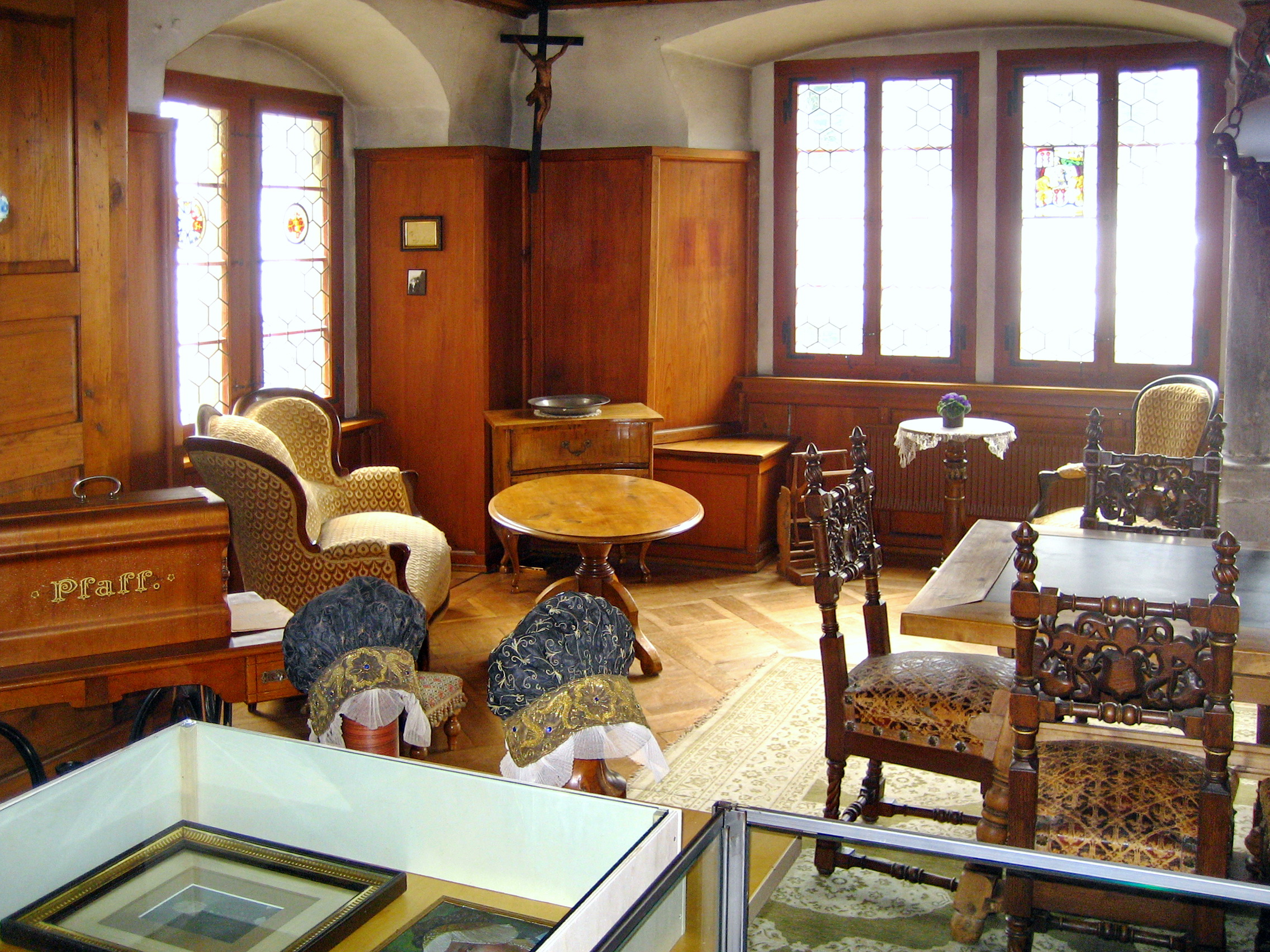 Rapperswil (SG) : Stadtmuseum (museum of local history).